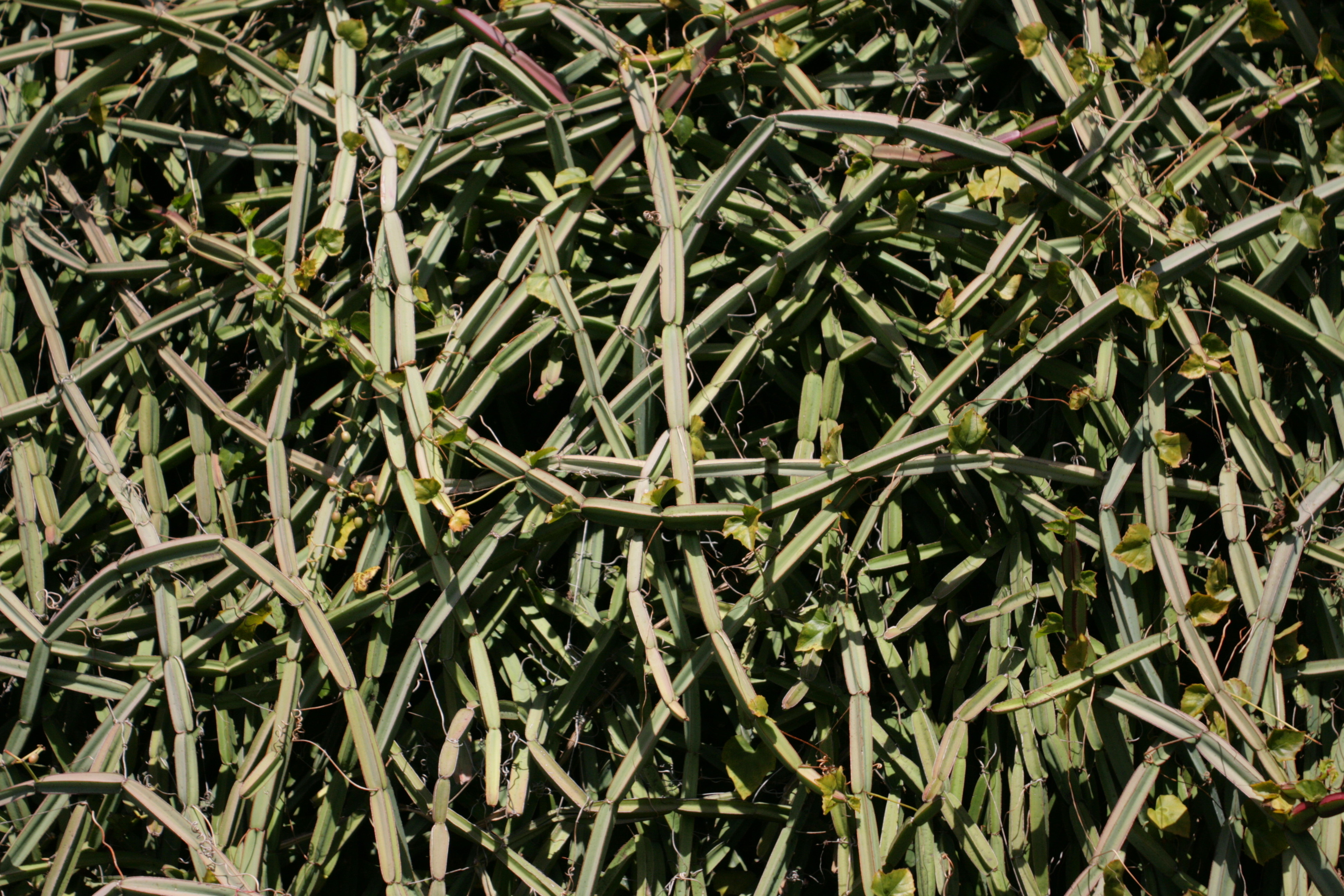 Cissus quadrangularis grown in the Botanical Garden “Jardin de Cactus” in Guatiza, Teguise, Lanzarote, Canary Islands